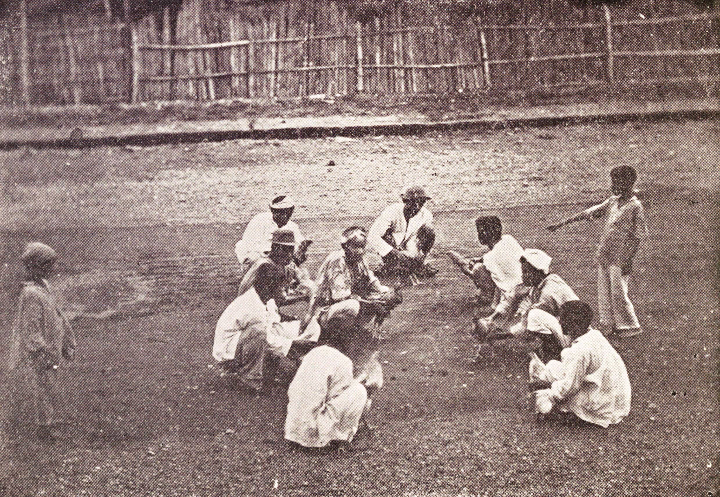 Original caption (cropped out): Cock Fighting, the Chief Sport of the Natives Description (cropped out): Every native has his fighting cock, which lives and sleeps in his house with him, and is loved by the owner as much as his own children. The Filipino will bet his last dollar on the issue of a battle between his own and another's game cock.